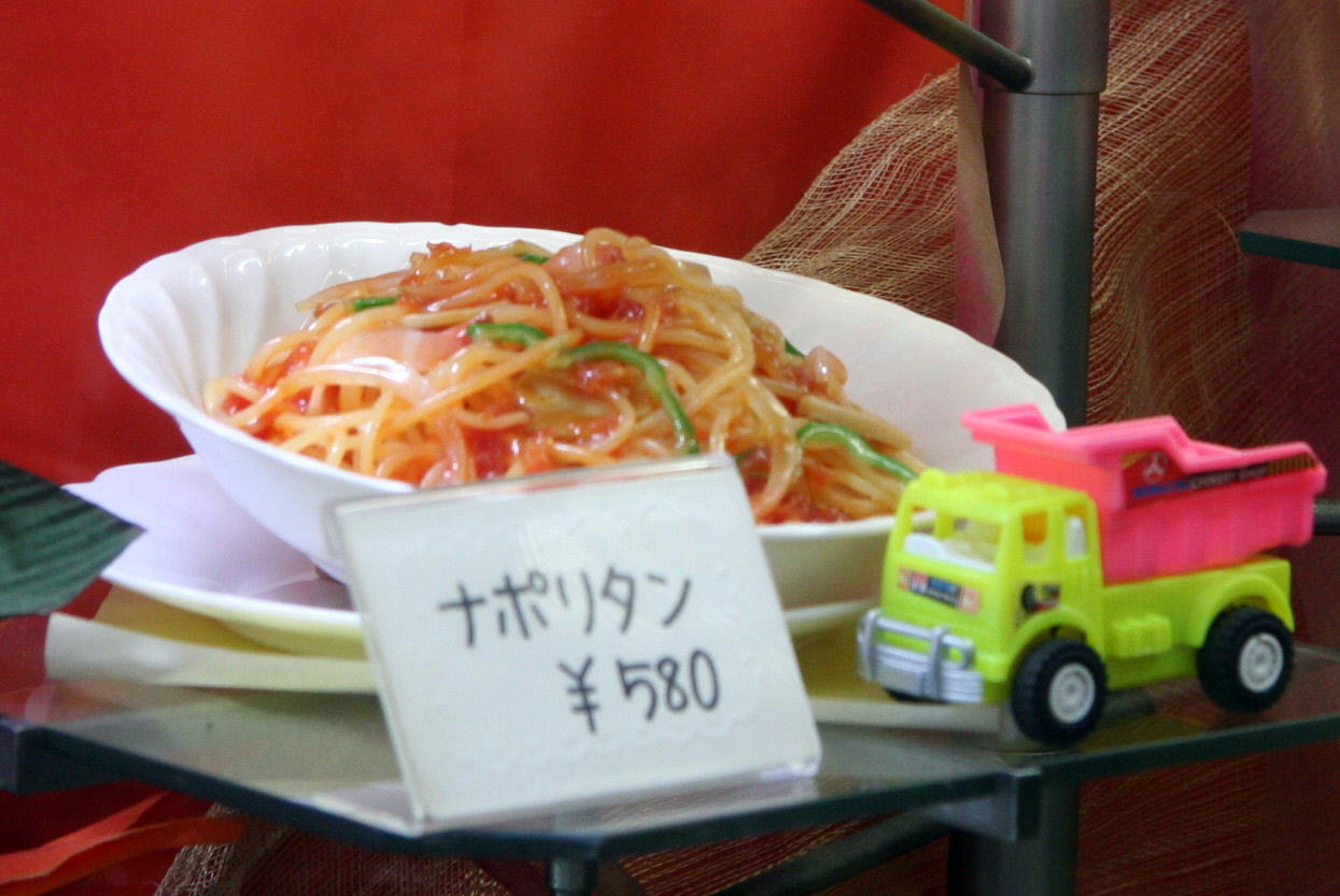 Nakanobu, Tokyo Japan